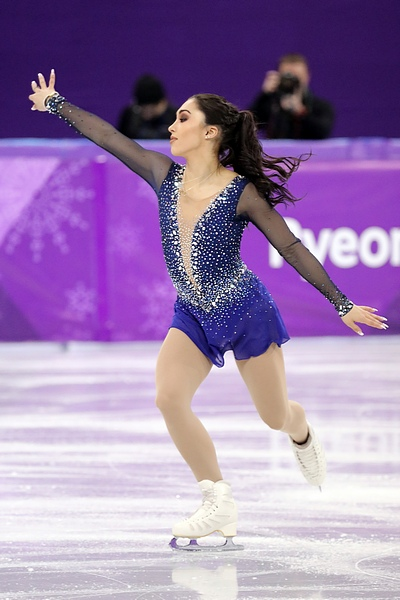 Gabrielle Daleman at the 2018 Winter Olympics